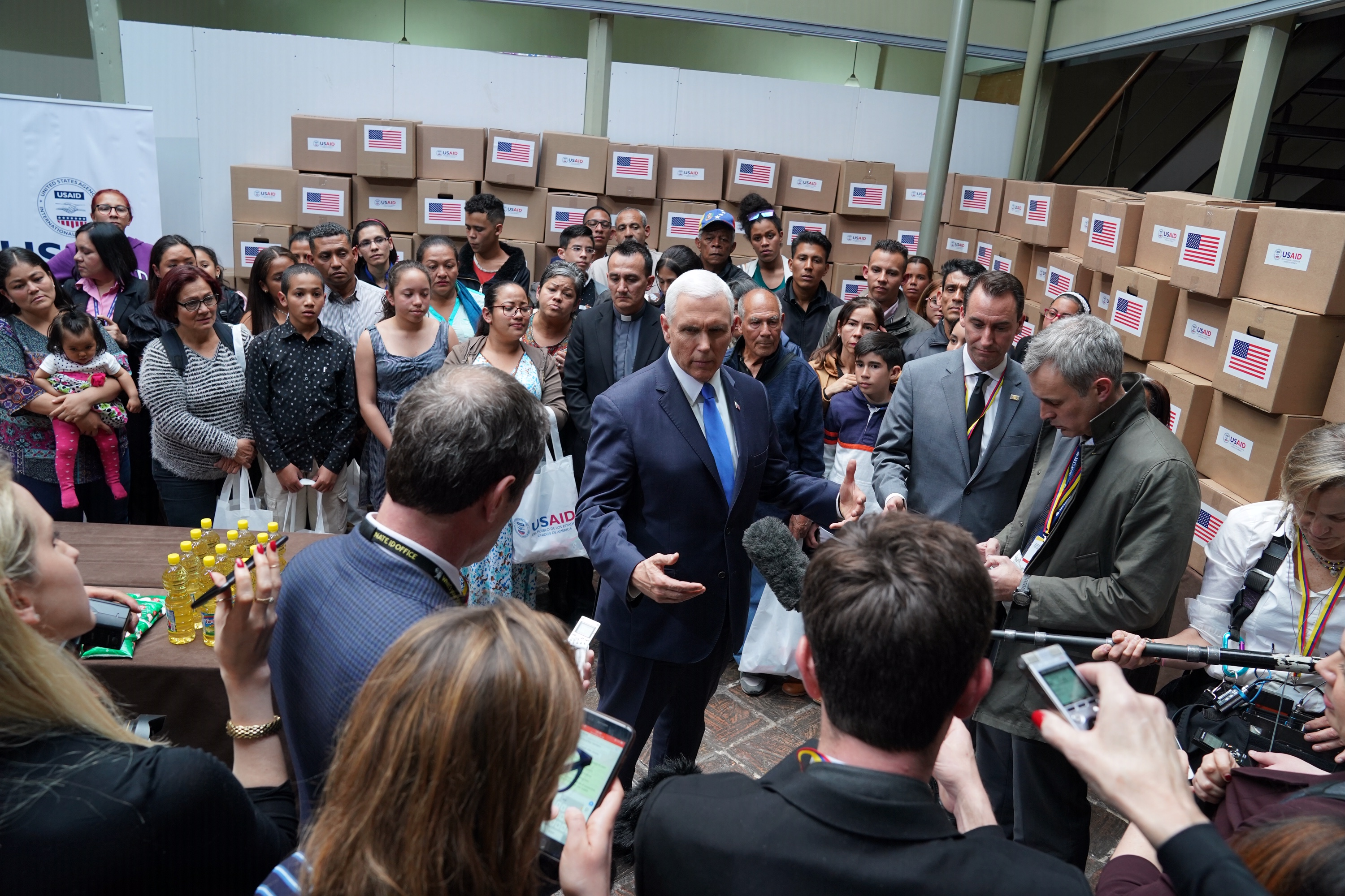 Vice President Mike Pence talks to members of the press Monday, Feb. 25, 2019 while meeting with Venezuelan migrants in Bogota, Colombia. (Official White House Photo by D. Myles Cullen)